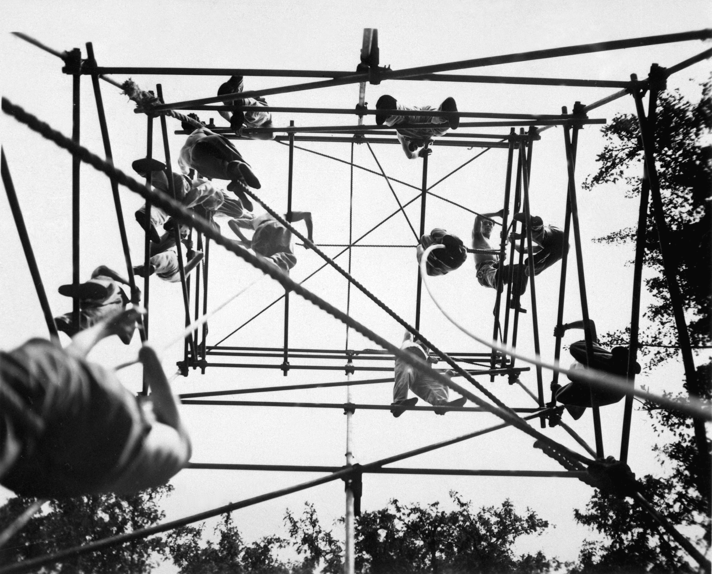 Jedburghs on high bars in obstacle course in Milton Hall, England. NARA FILE #: 226-FPL-MH-23 WAR & CONFLICT BOOK #: 737. ID: HD-SN-99-02396